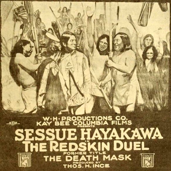 Ad for the American film The Death Mask (1914) with Sessue Hayakawa, for its 1919 reissue under the title The Redskin Duel, on page 919 of the February 15, 1919 Moving Picture World.